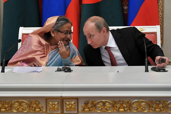 Vladimir Putin held talks with Prime Minister of Bangladesh Sheikh Hasina (Moscow; 2013-01-15).